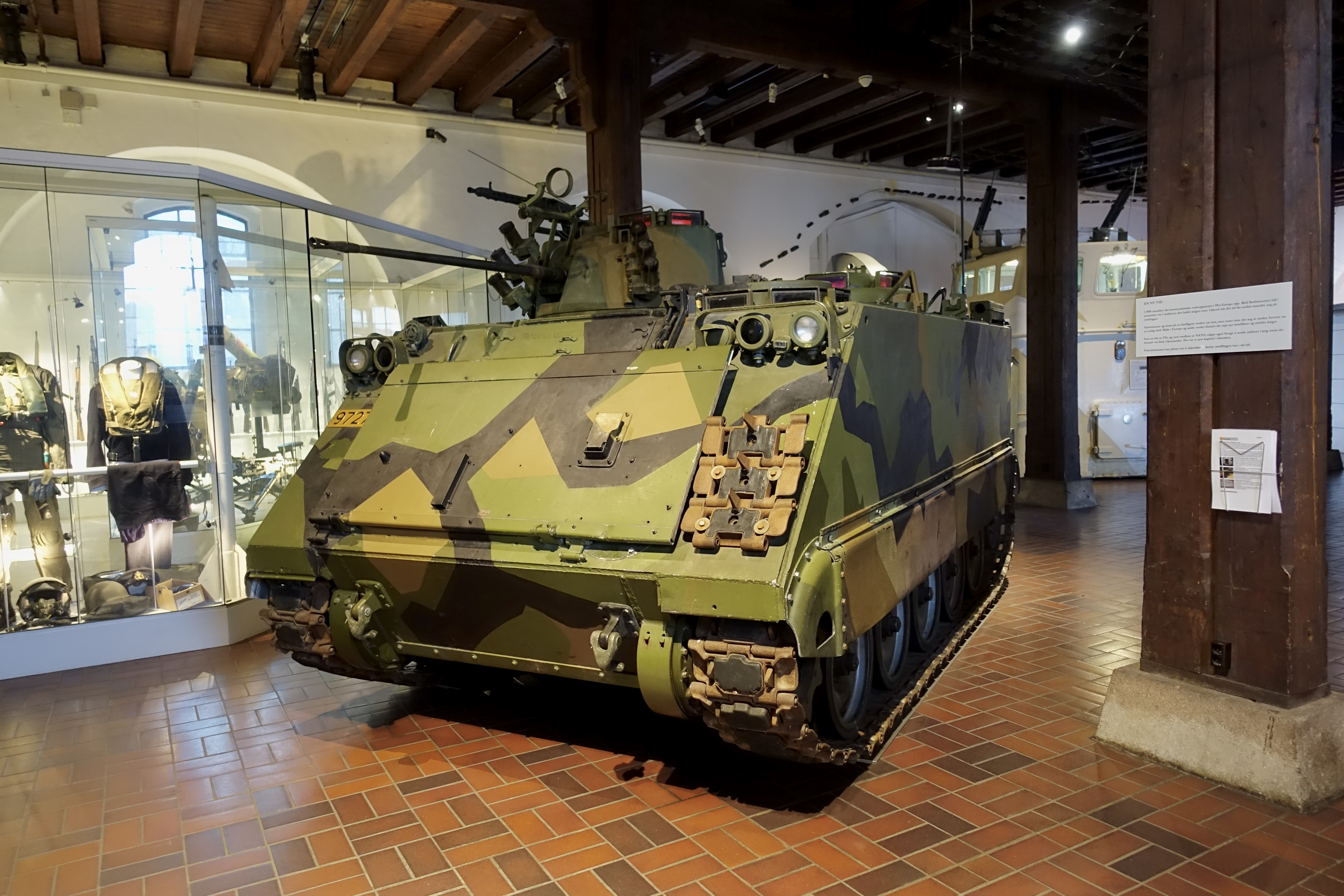 Norwegian NM135 Stormpanservogn with a 20 mm autocannon (maskinkanon) and MG3 machine gun. This tracked light armoured vehicle (LAV) is a variant of the American M113 armoured personnel carrier (APC), armed with a cannon in a rotating turret. The vehicle, developed by the Norwegian Army in the 1980s, is no longer in active service. Photo taken in February 2020 at the Armed Forces Museum of Norway (Forsvarsmuseet) in Oslo.